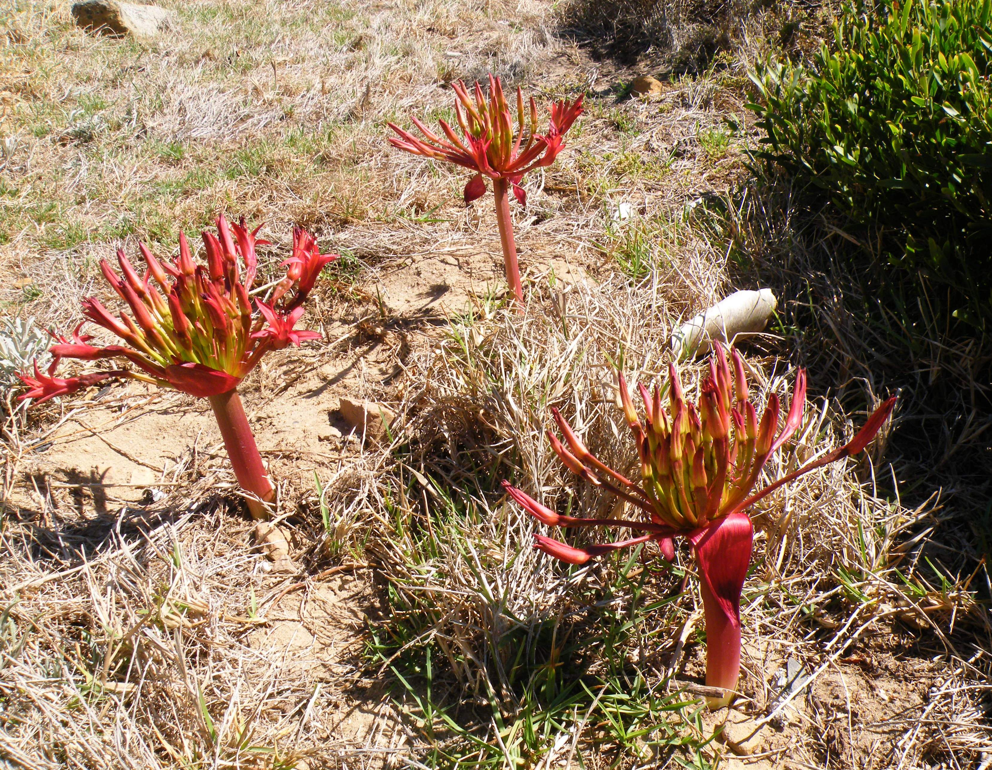 Candelabra plants. Cape Town.